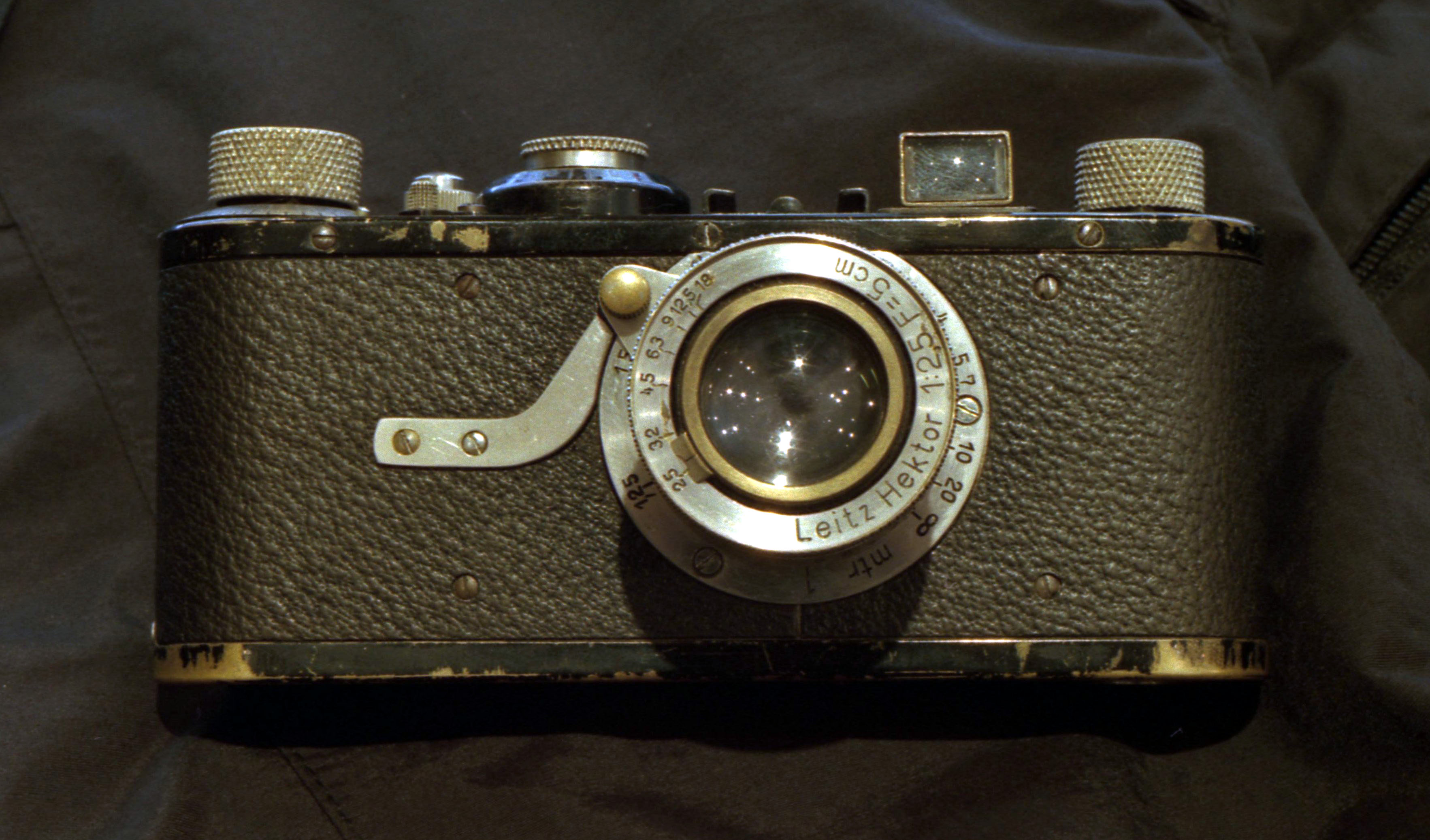 Leica 1 Thanks to Double Expo (88 Bvd Beaumarchais, 75011 Paris) for generously lending a tripod, a 60 mm macro lens, and the Leica 1. This is an analog photograph. Higher resolution versions of this file may be possible.